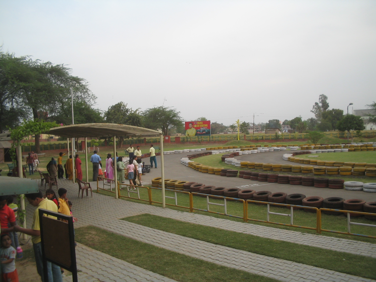 Vajra Go Karting at the Jalandhar Cantonment, which is open to civilians also, is a big attraction